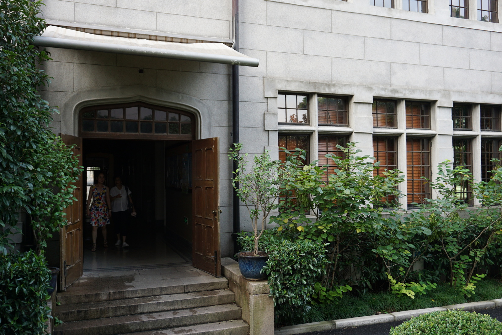 Shanghai No. 3 Girls' High School, Five-Four lecture building side entrance